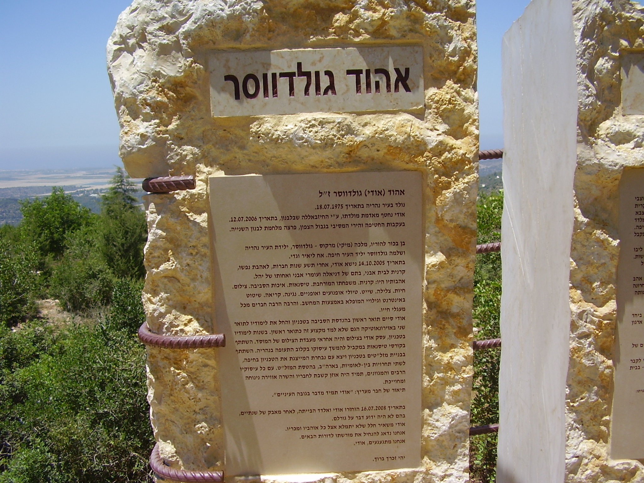 memorial to ehud goldwasser in idmit park